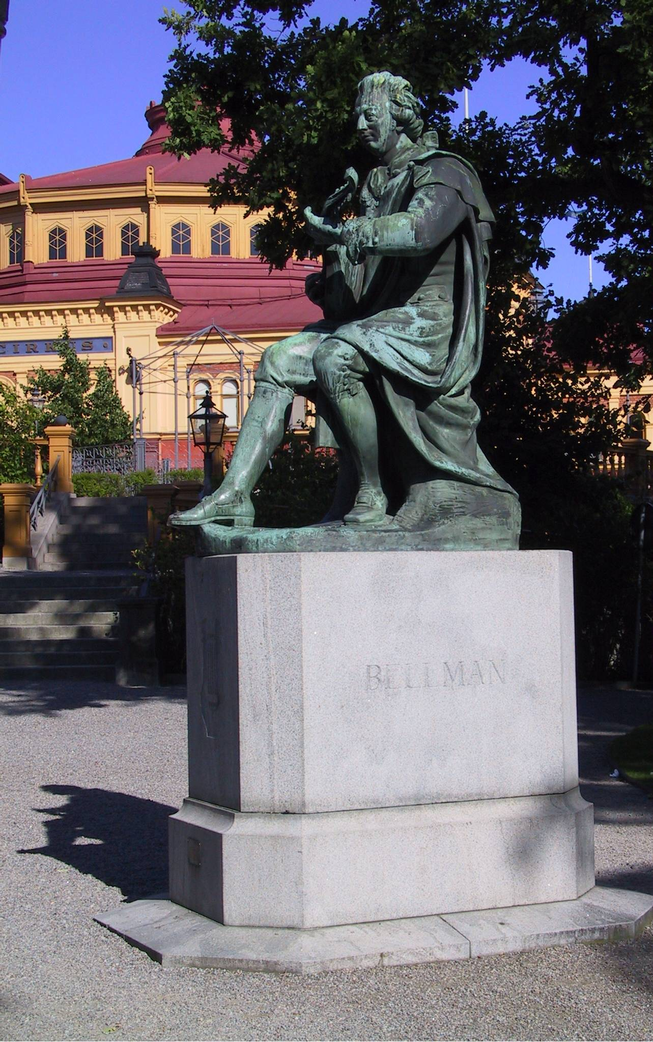 Statue of Swedish poet Carl Michael Bellman by Alfred Nyström (1872), located in front of Restaurang Hasselbacken in Djurgarden, Stockholm